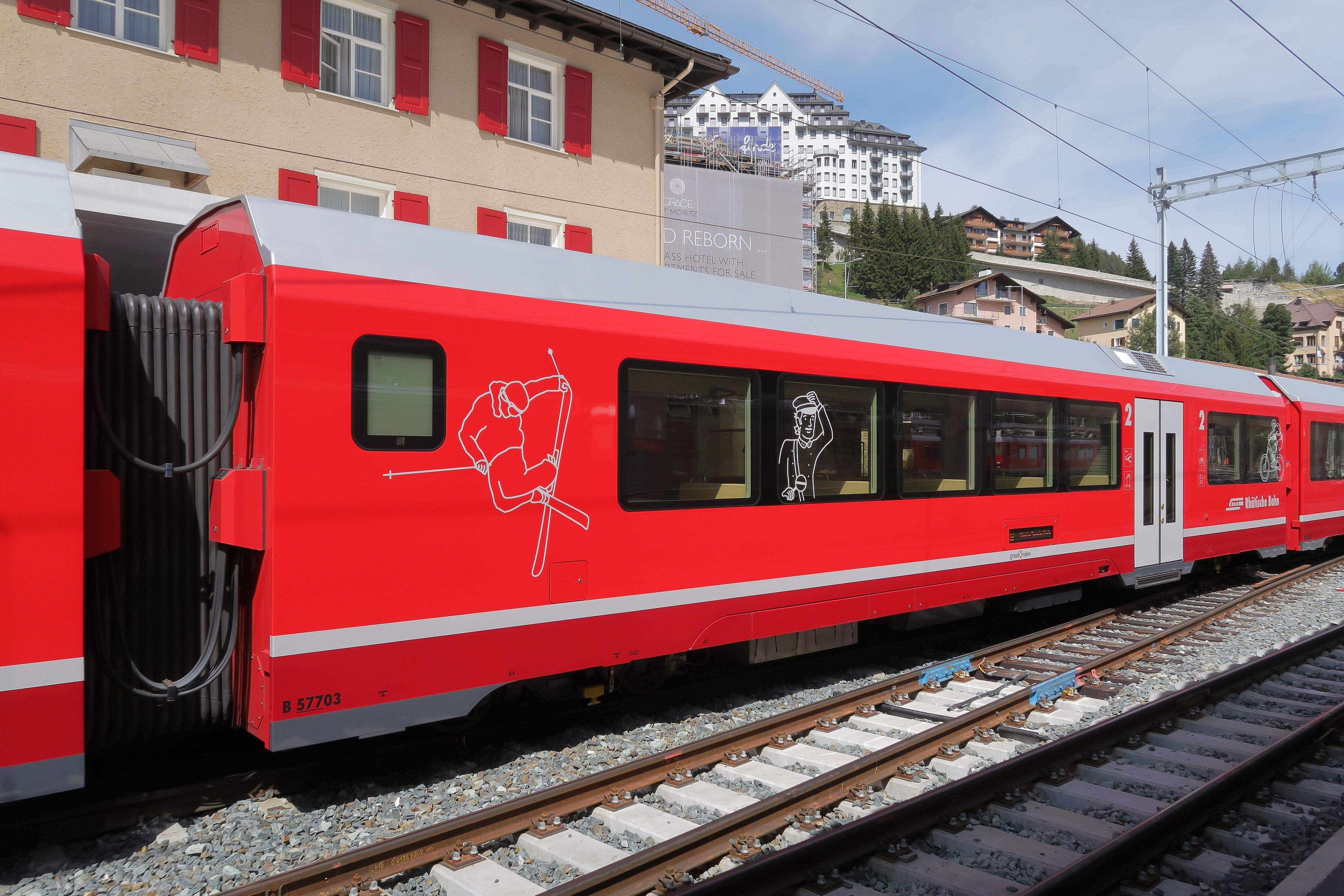 The leisure and family rail car of the new articulated trains Alvra. Rhaetian Railway in St Moritz, Switzerland, Aug 30, 2017. (1/5)